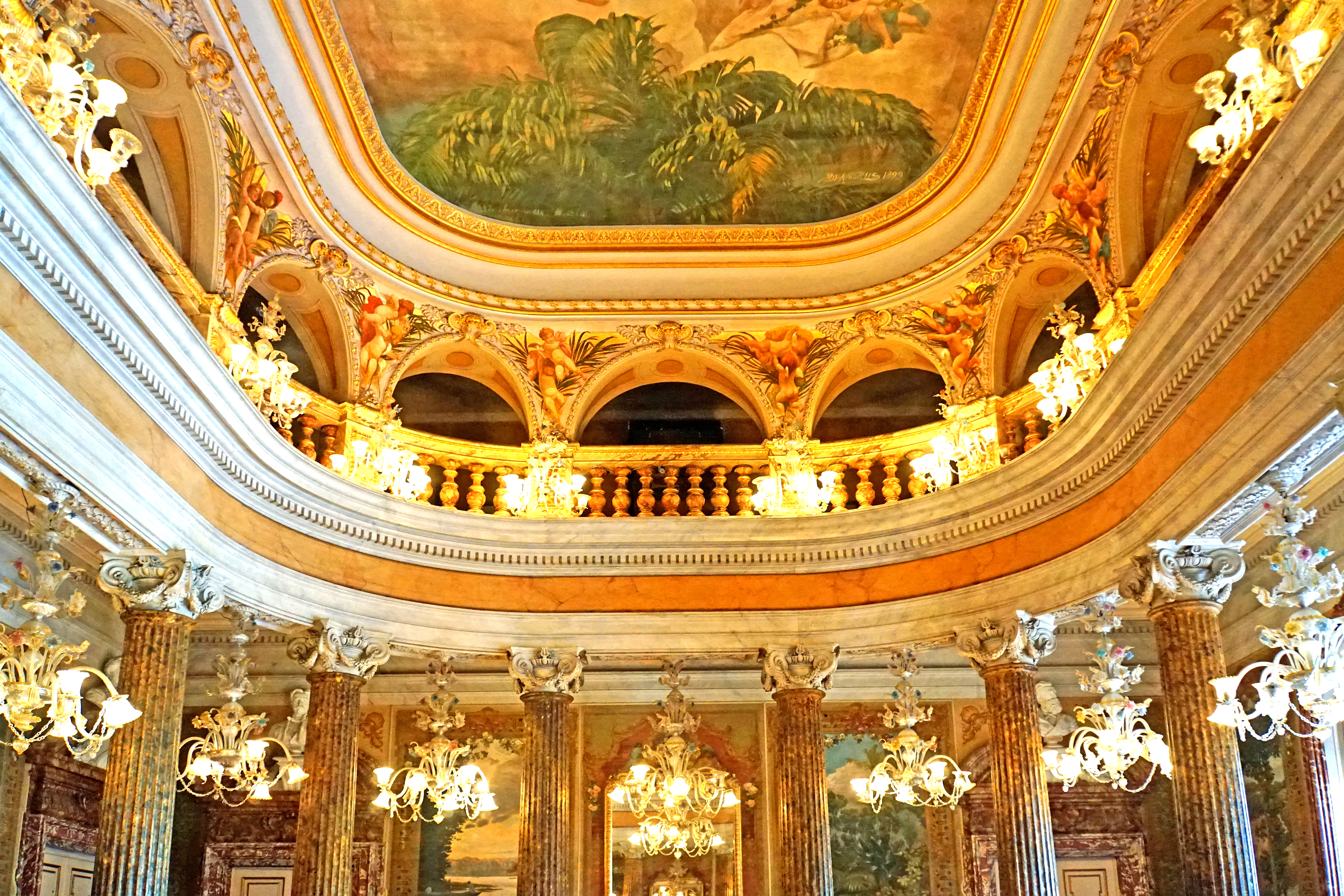 Noble Hall of the Amazon Theater in the Brazilian city of Manaus, Amazonas.